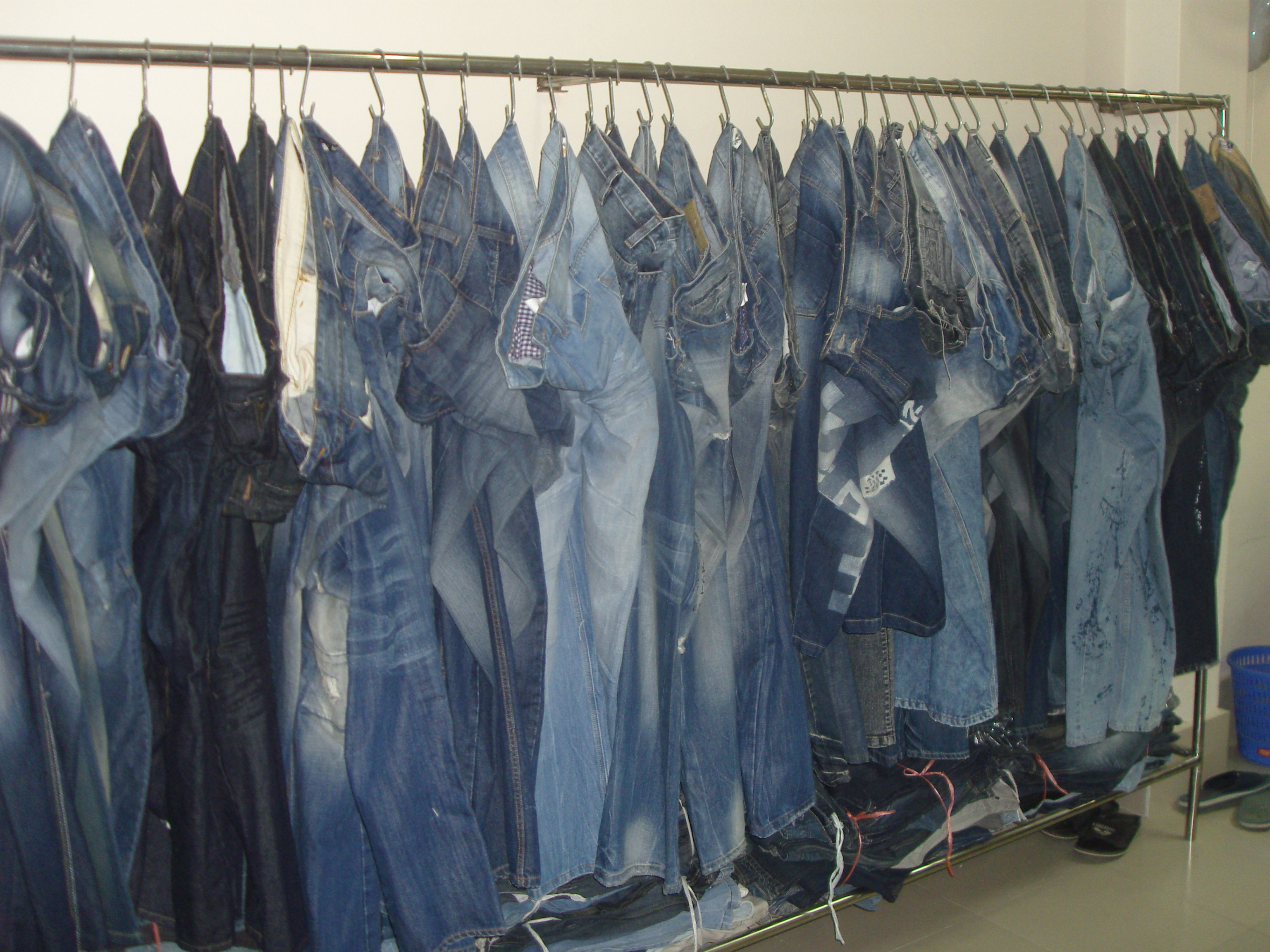 Some of Different Washed Denim Product